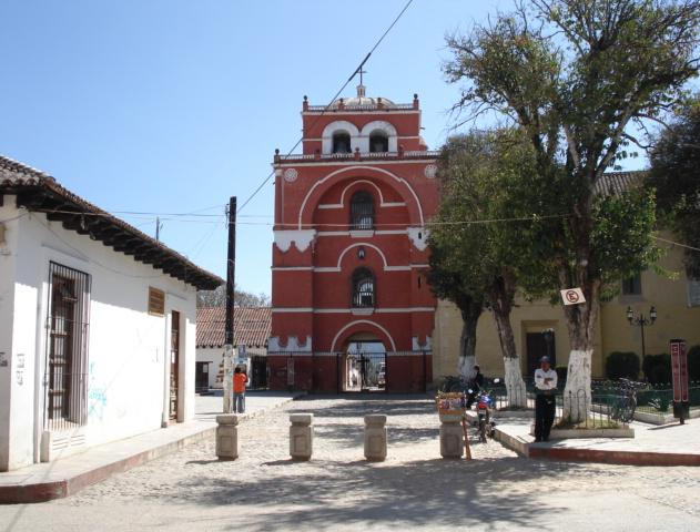 arco del convento del carmen